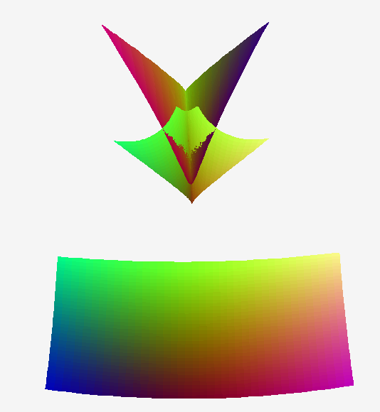 A surface with a hyperbolic umbilic and its focal surface. Her there is a single cuspidal edge which switches from one sheet to the other.